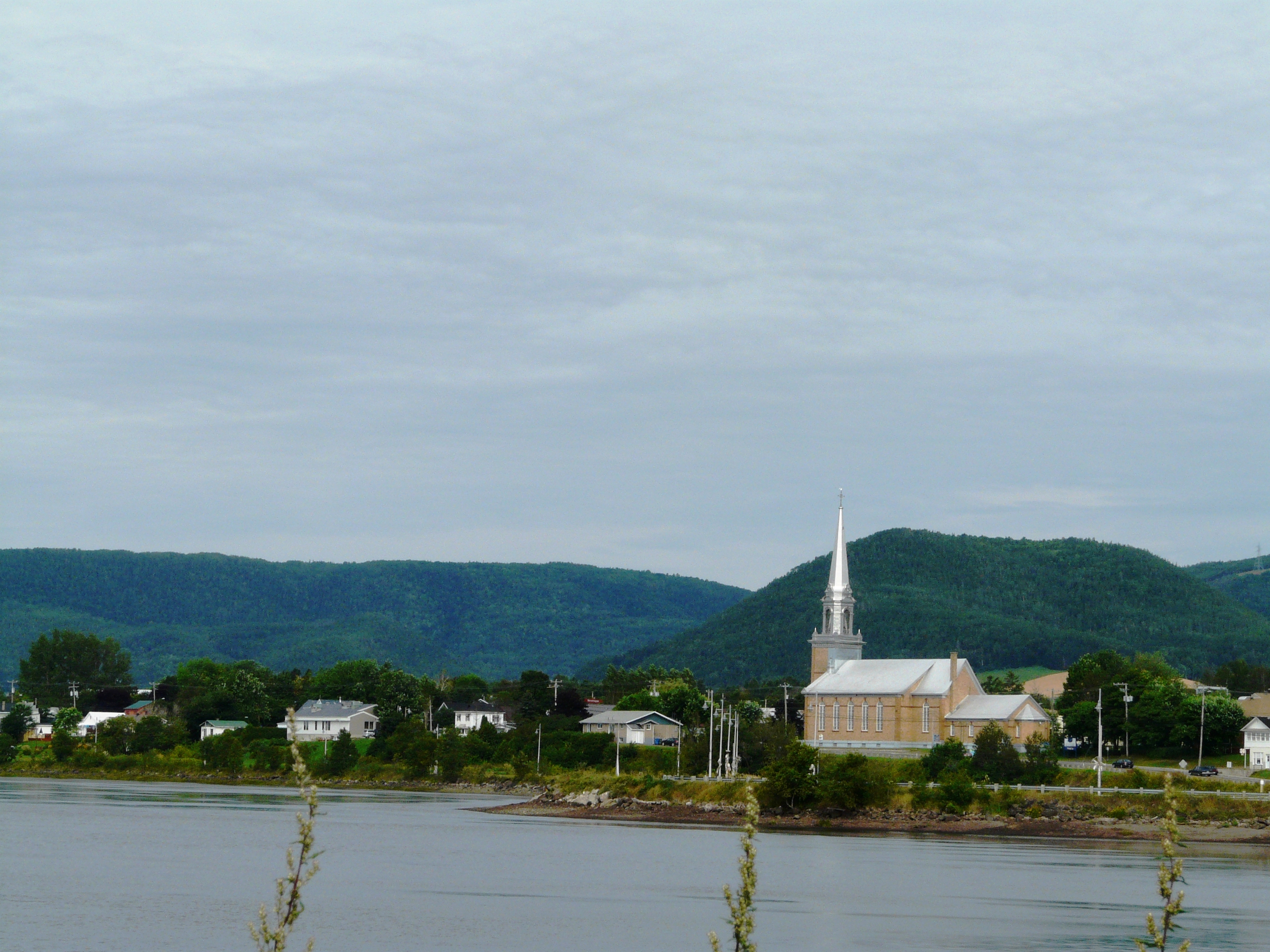 View of the village of Carleton-sur-Mer, Quebec